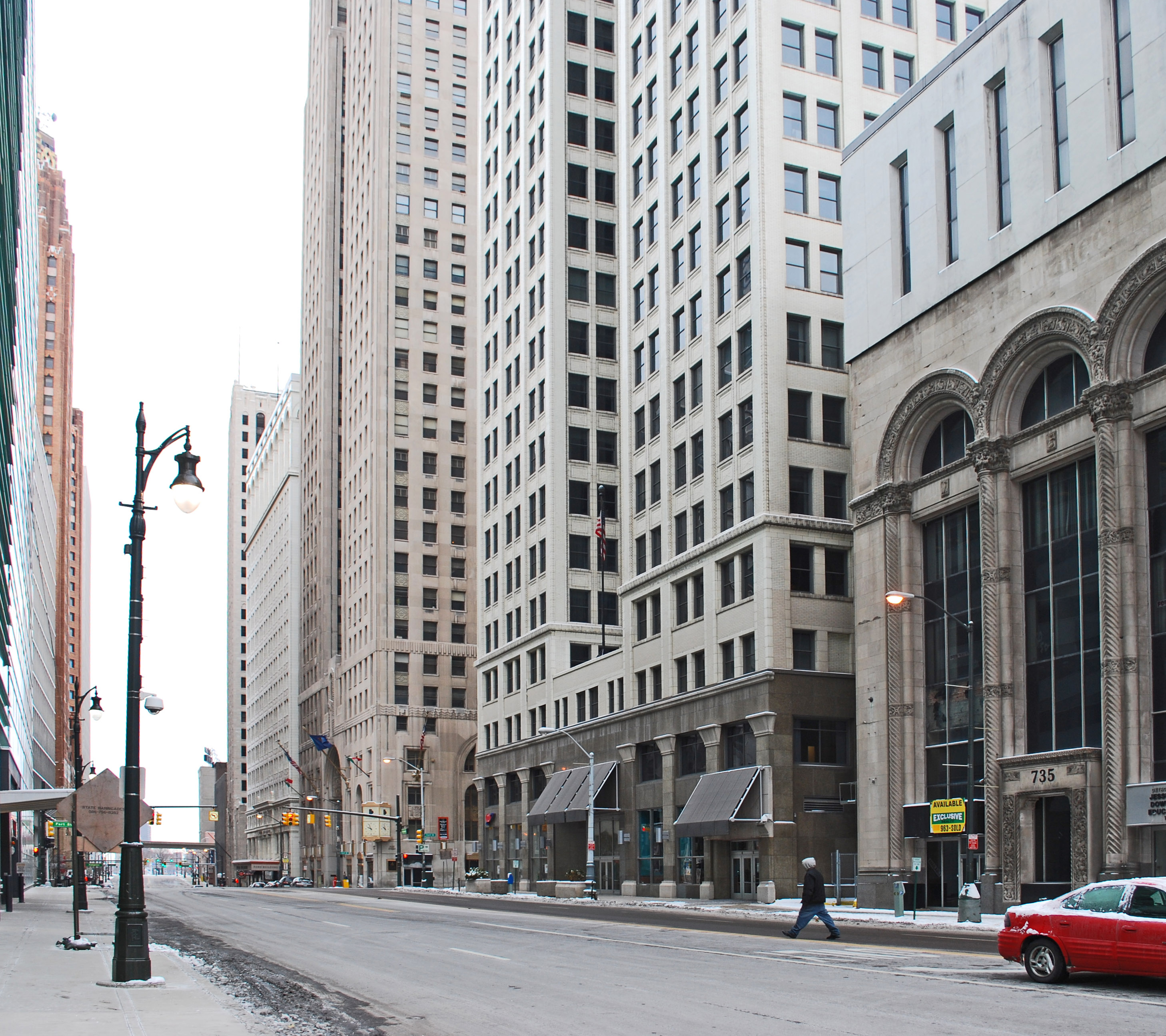 Detroit Financial District looking south along Griswold from Lafayette